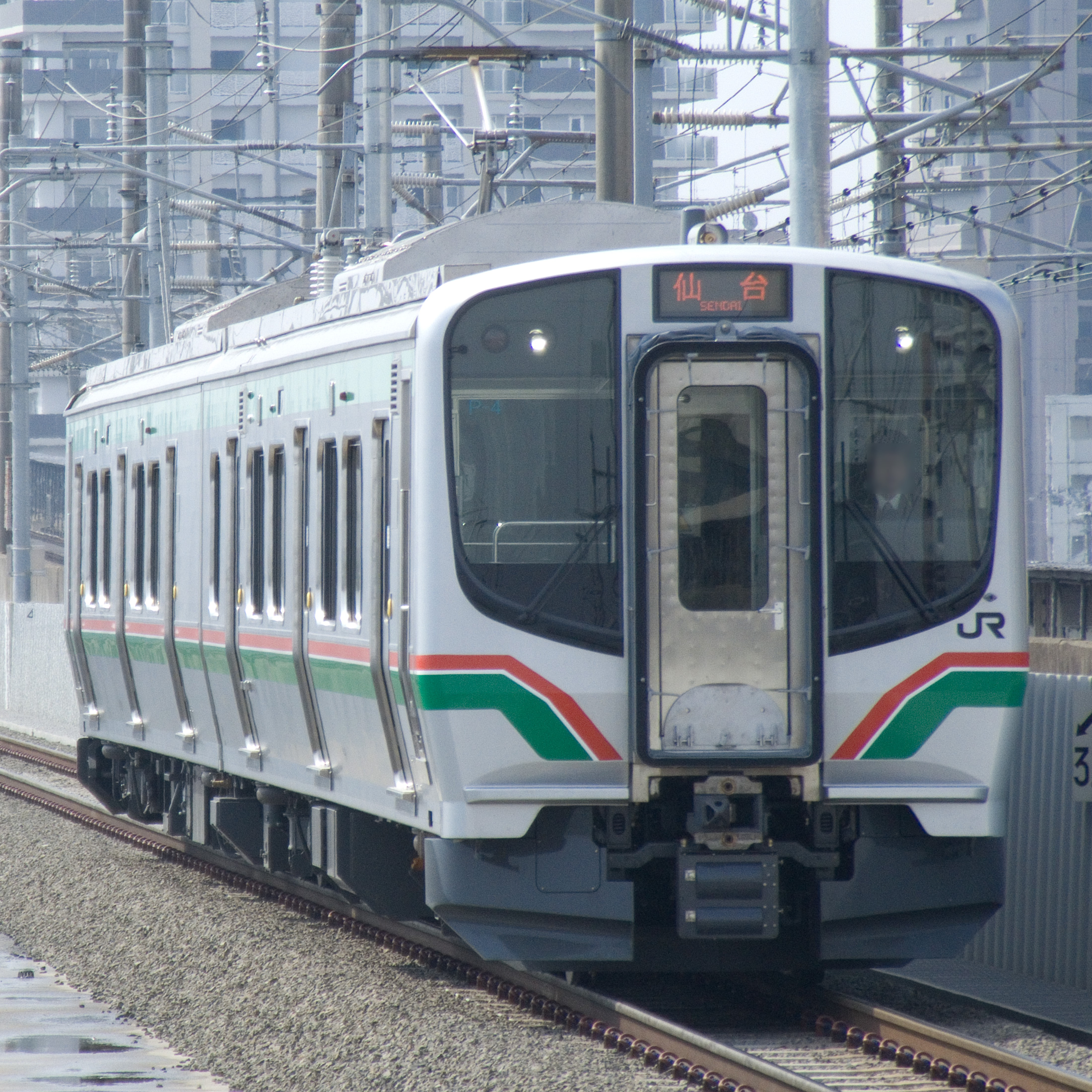 JR East series E721